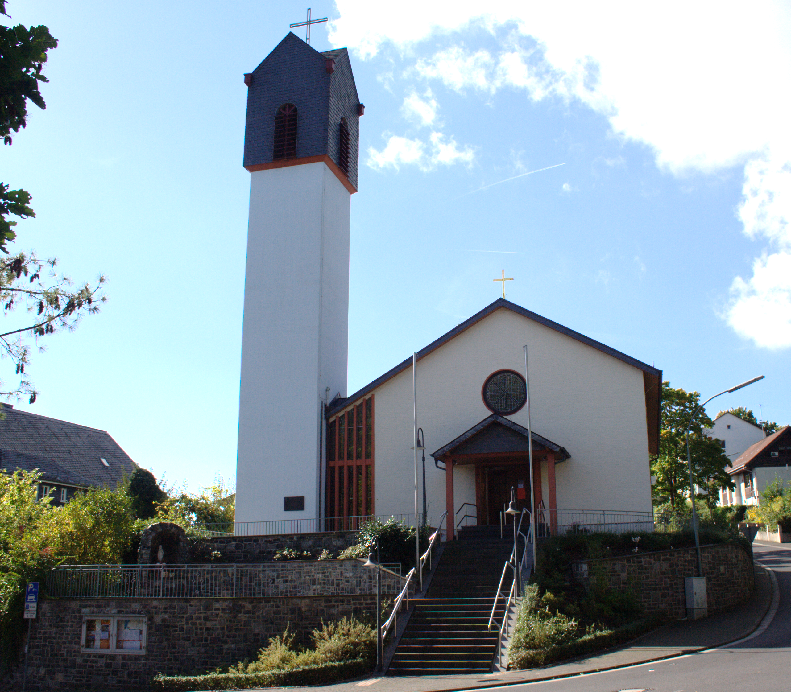 Catholic church in Schotten / Vogelsberg / Hesse / Germany